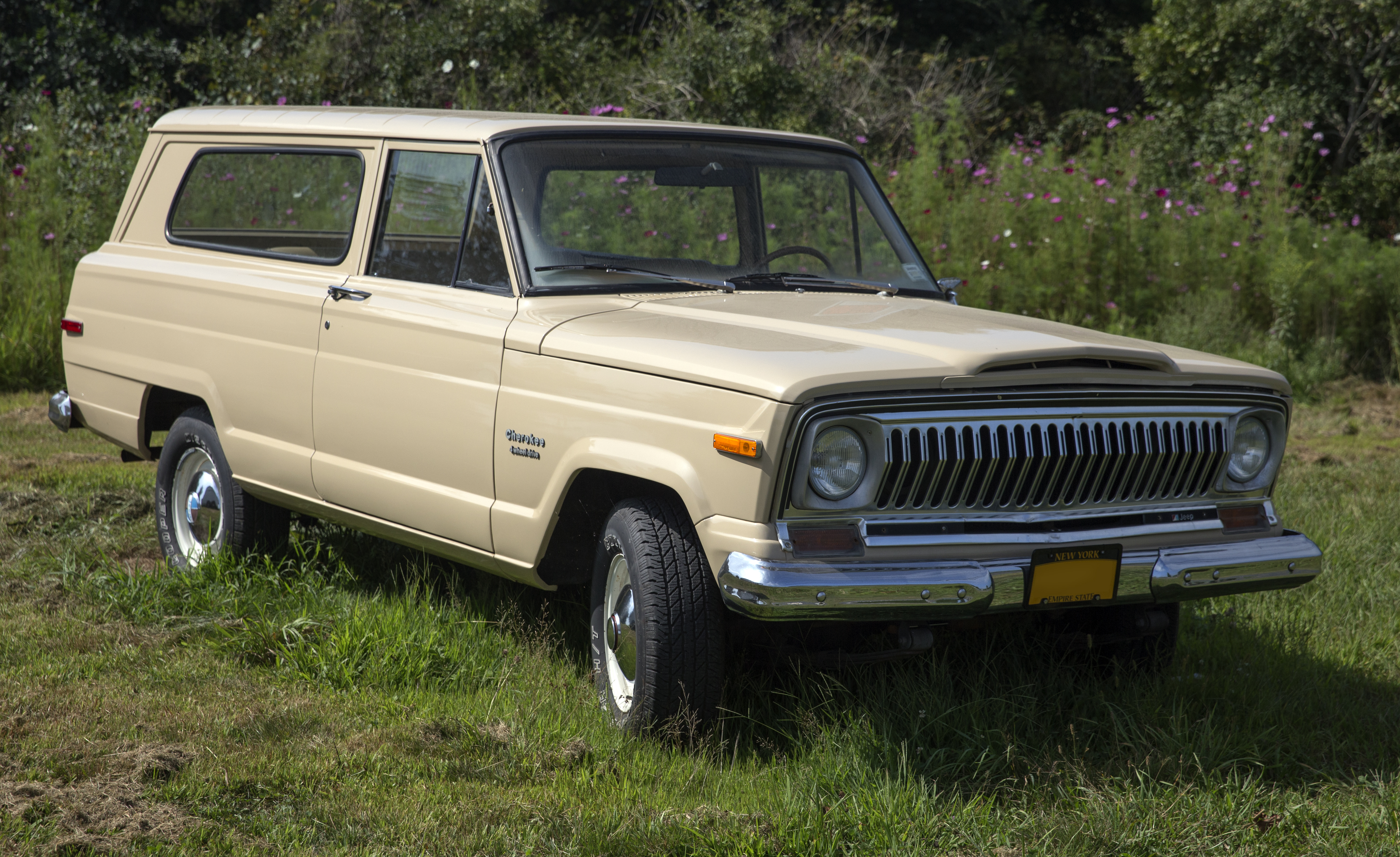 1975 Jeep Cherokee three-door four-wheel-drive. Three on the tree, six-cylinder, and only 21K miles!